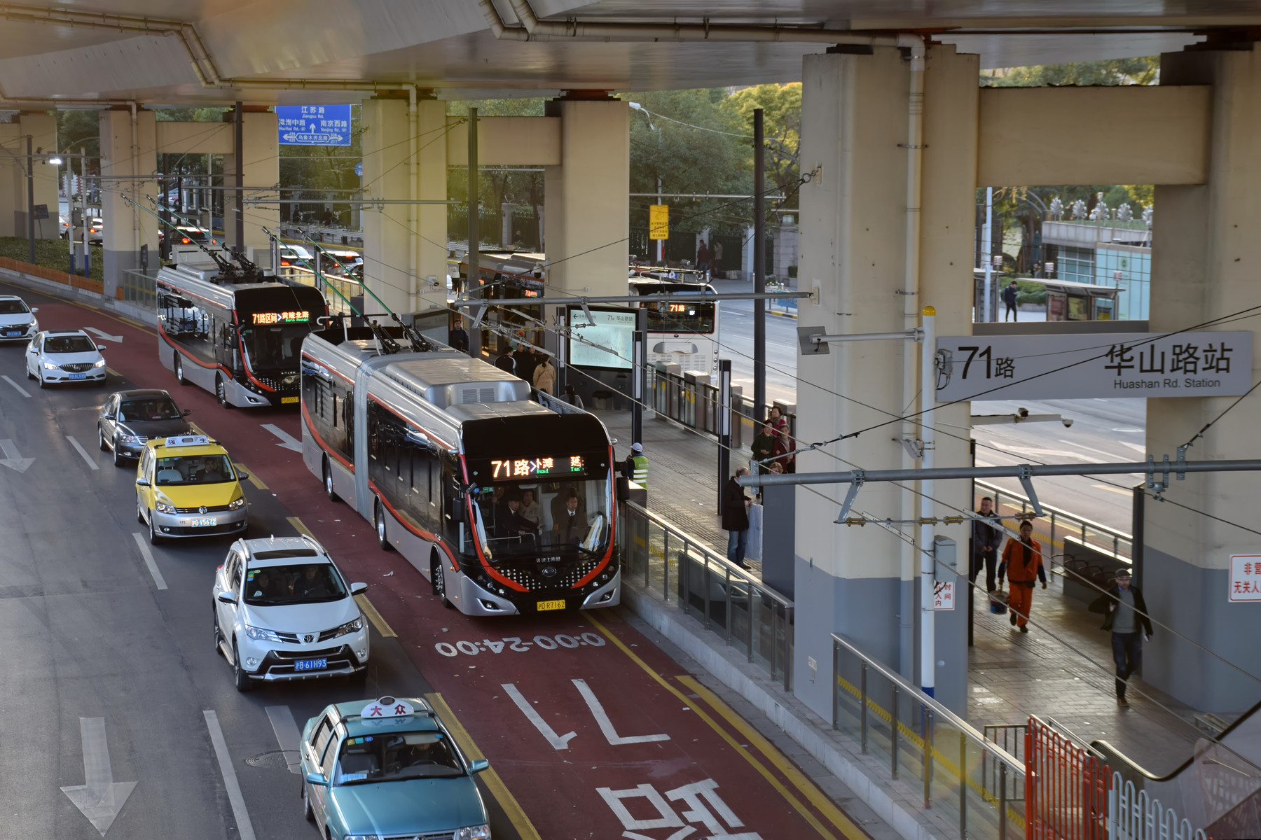 Shanghai Bus Route 71 18-metre Yutong ZK5180A Articulated Trolleybus & 12-metre Yutong ZK5180C Articulated Trolleybus at Huashan Road Station